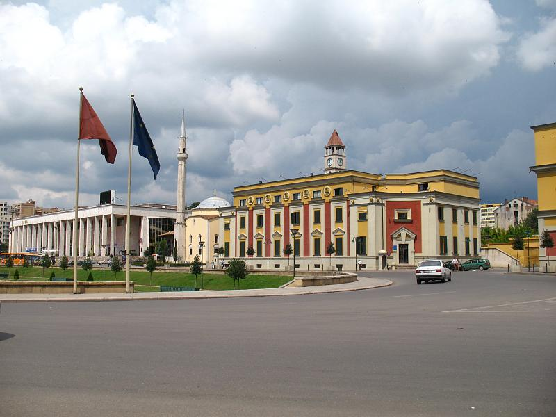 Tirana city hall on Skanderbeg square in the Albanian capital. Ethem Bey mosque and the Palace of Culture are seen in the left.